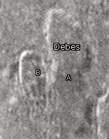 Debes lunar crater as seen from Earth with satellite craters labeled